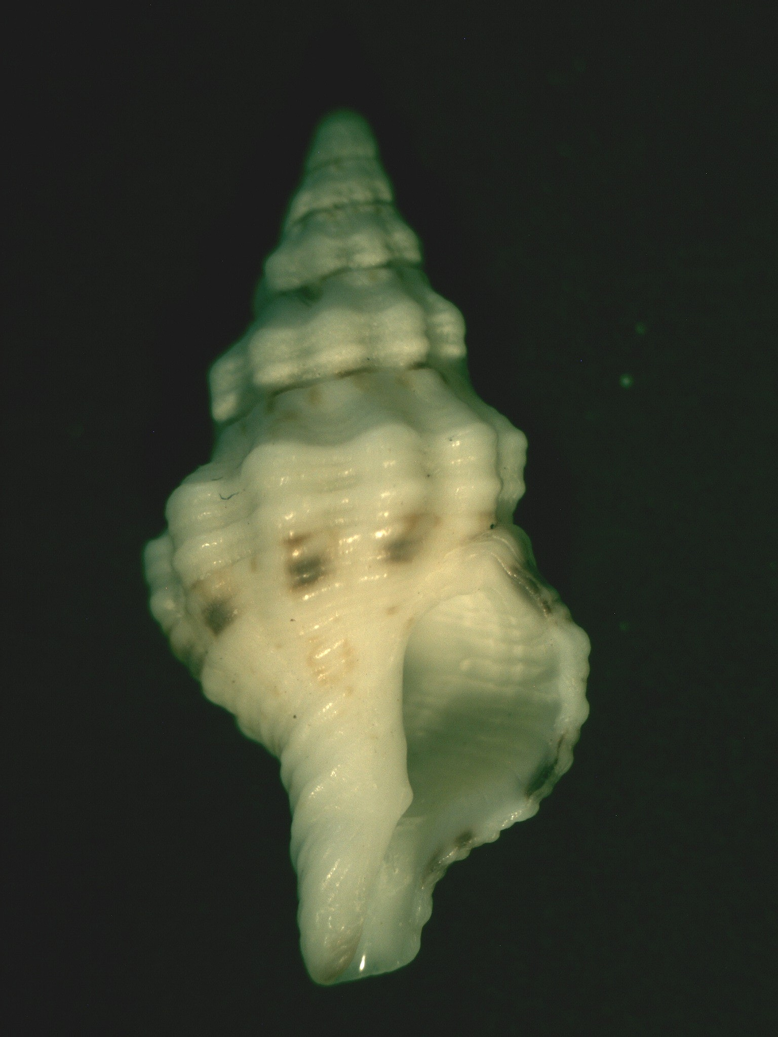 Microcolus dunkeri (Jonas, 1846), a spindle snail from the family Fasciolariidae; South Australia